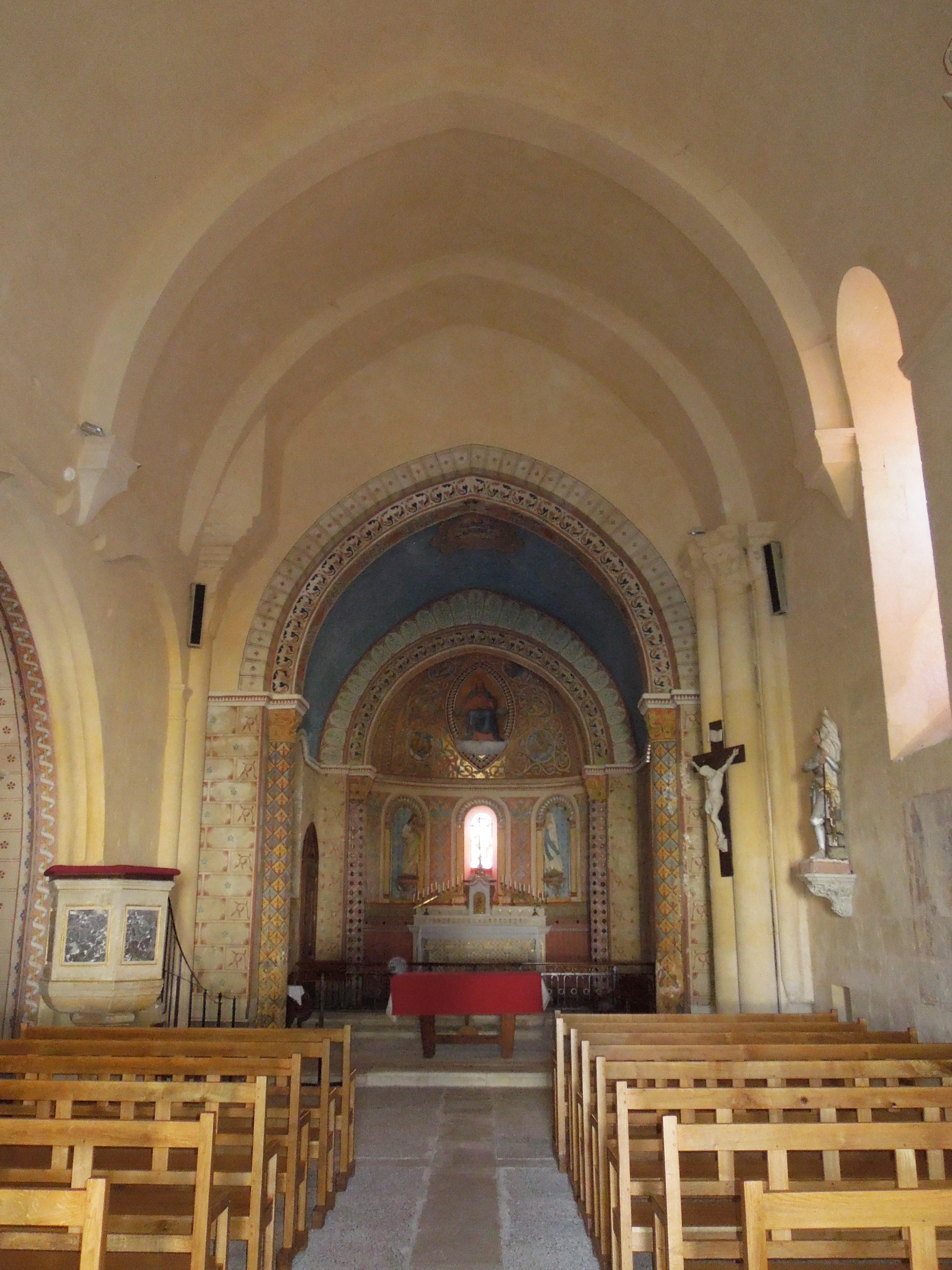 Mosnac (Charente-Maritime), Saint-Saturnin, nave